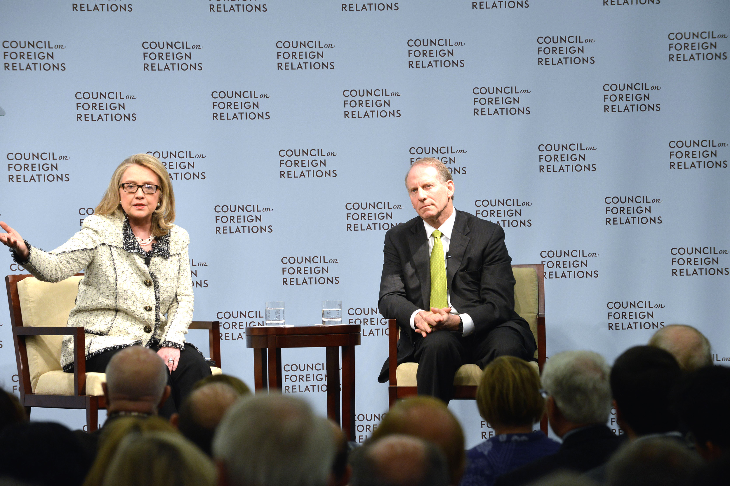 U.S. Secretary of State Hillary Rodham Clinton speaks with Richard Haass, President of the Council on Foreign Relations, after delivering a speech on American leadership at the Council on Foreign Relations in Washington, D.C., on January 31, 2013. [State Department photo/ Public Domain]